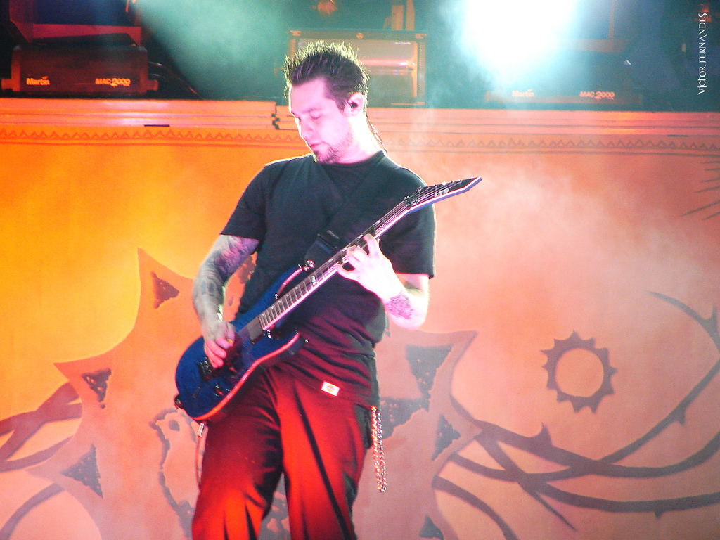 Evanescence at a concert. Photography showing John LeCompt.